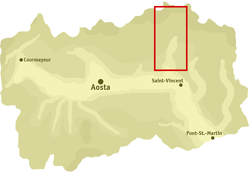 Position of the valley Valtournence